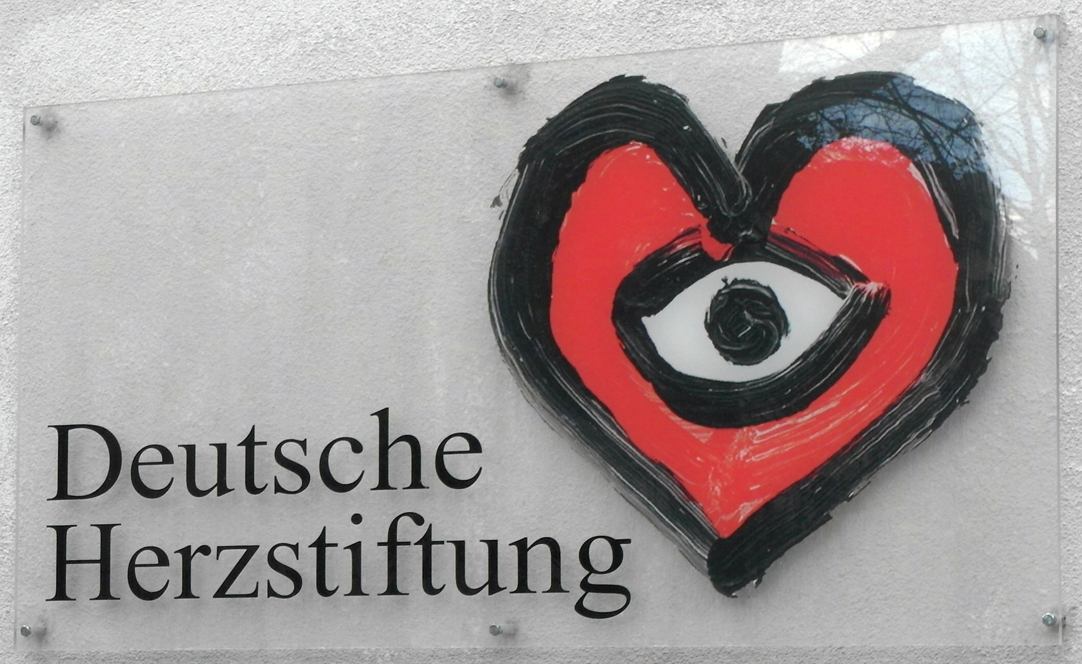 Logo of the German Heart Foundation (at its former seat in Frankfurt/Main, Germany); the logo has been designed by Celestino Piatti